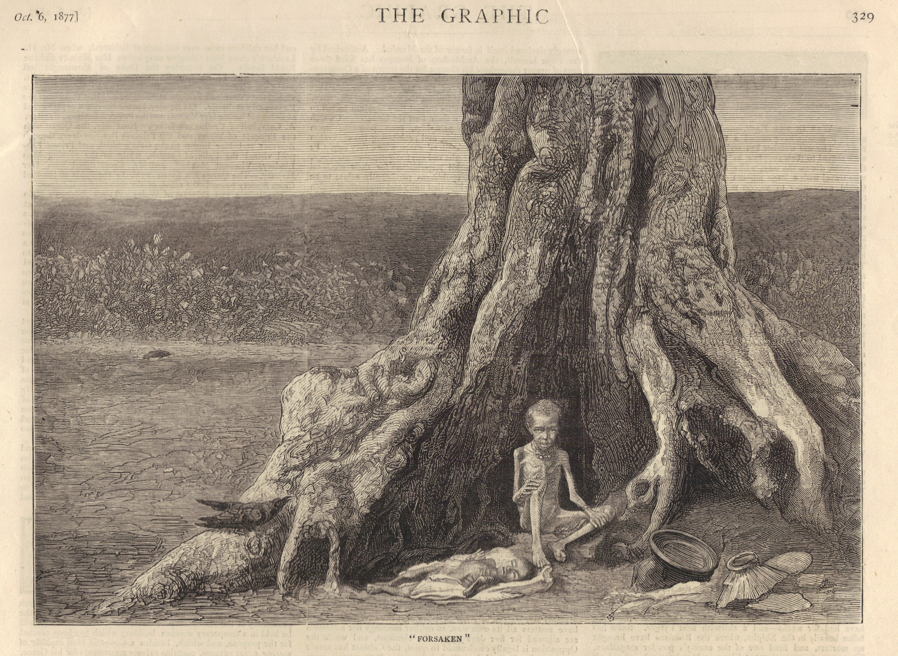 Engraving from personal copy of The Graphic, entitled "Forsaken," of two children in the Bellary district of the Madras Presidency, British India during the Great Famine of 1876–78. Scanned and uploaded from personal copy by Fowler&fowler«Talk» 20:43, 7 September 2011 (UTC)